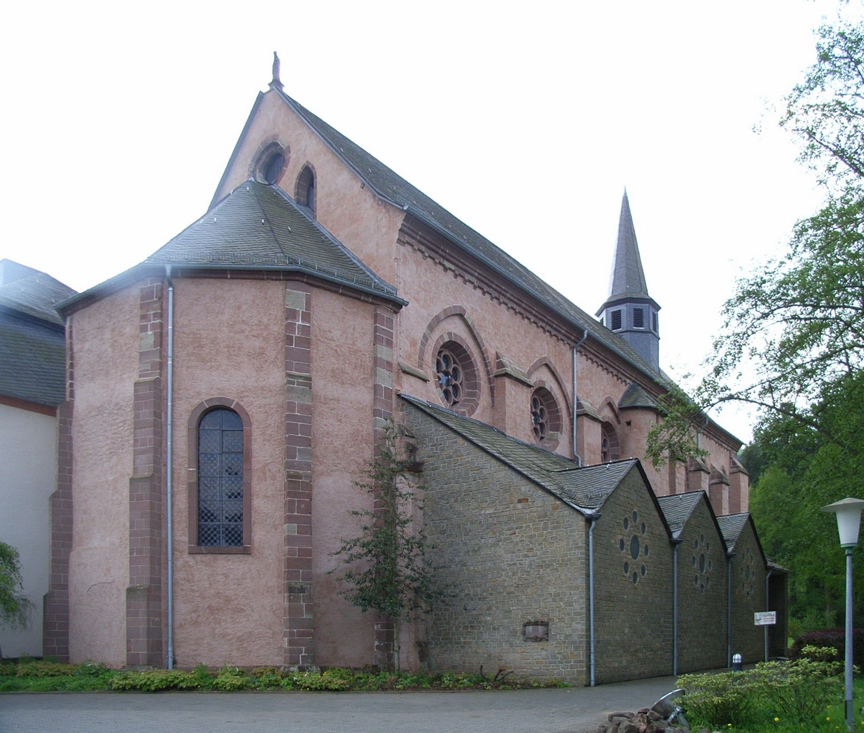 Church of former monastery St. Thomas.